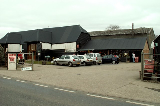 Blake House Craft Centre, Blake End, Essex.